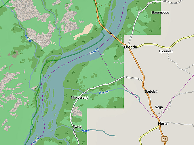 location of the bridge on the Sanaga River in Ebebda, with OSM. This map may be incomplete, and may contain errors. Don't rely solely on it for navigation.